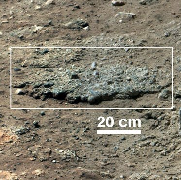 Best View of Goulburn Scour This image from NASA's Curiosity Rover shows a high-resolution view of an area that is known as Goulburn Scour, a set of rocks blasted by the engines of Curiosity's descent stage on Mars. It shows a section from a mosaic of a pair of images obtained by Curiosity's 100-millimeter Mast Camera, with three times higher resolution than previously released. Details of the layer of pebbles can be seen in the close-up. These two images were the first views of this sandy conglomerate, a sedimentary layer laid down by water in the very distant past and uncovered in August 2012 during the rover's landing. The inset magnifies the area by a factor of two. Mastcam obtained these images on Aug. 19, 2012, or the 13th sol, or Martian day, of Curiosity's surface operations.